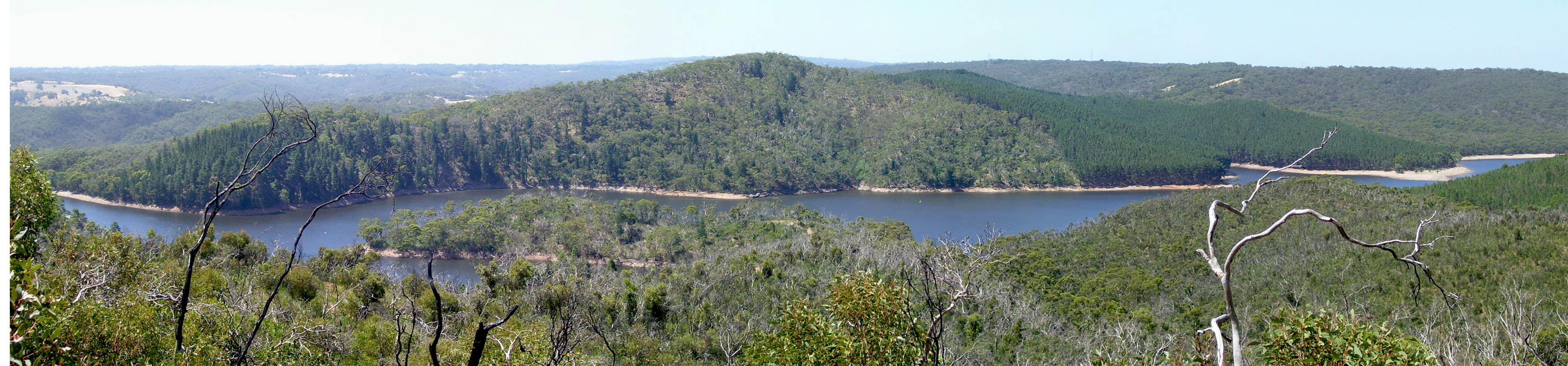 Panorama of western part of Mt Bold Reservoir and surrounds, looking north. Panorama assembled with Autopano.